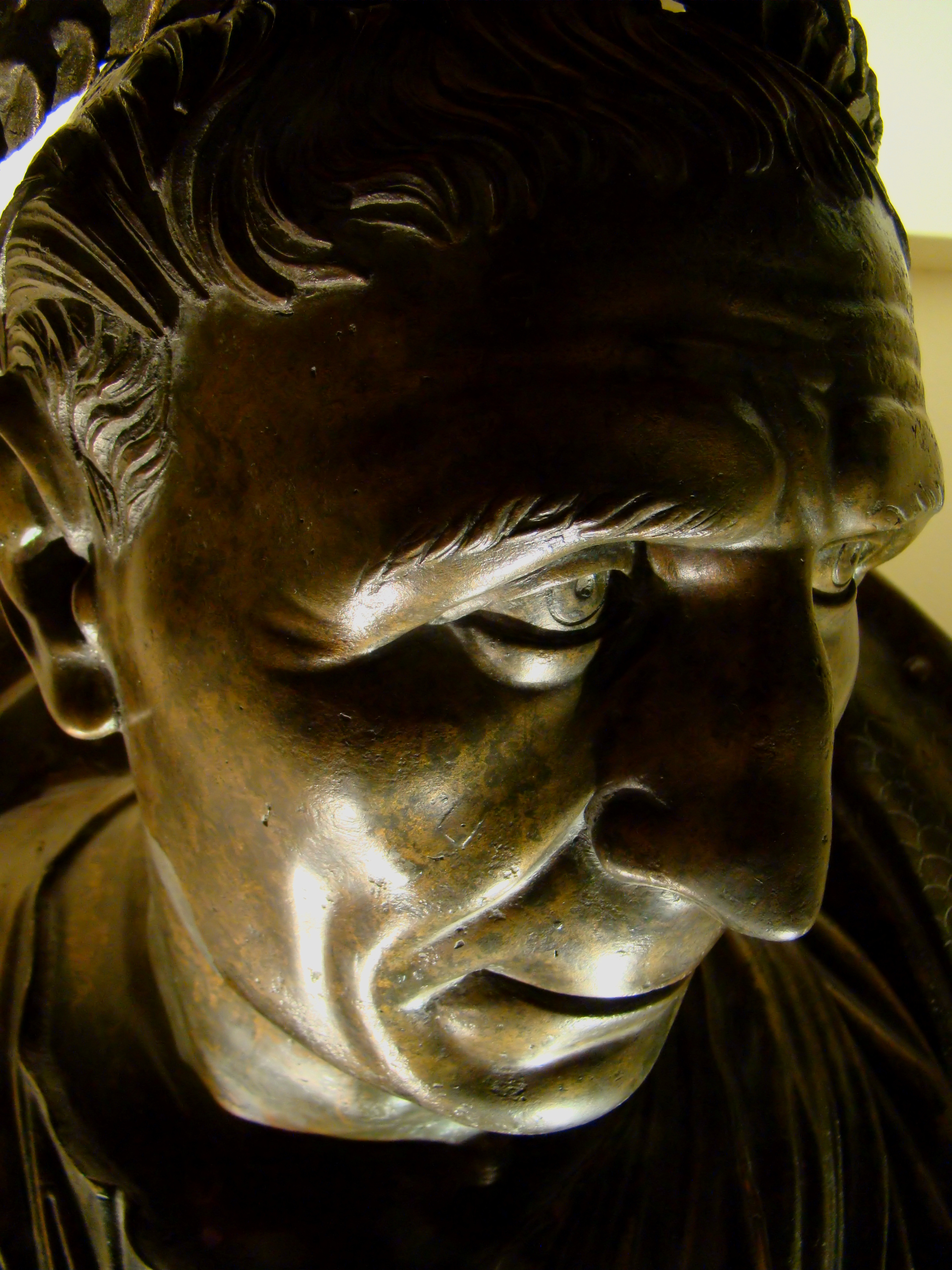 Bust of Roman Emperor Traianus who reigned from 98-117 AD. The bust is on display in Ankara's Museum of Anatolian Civilisations.